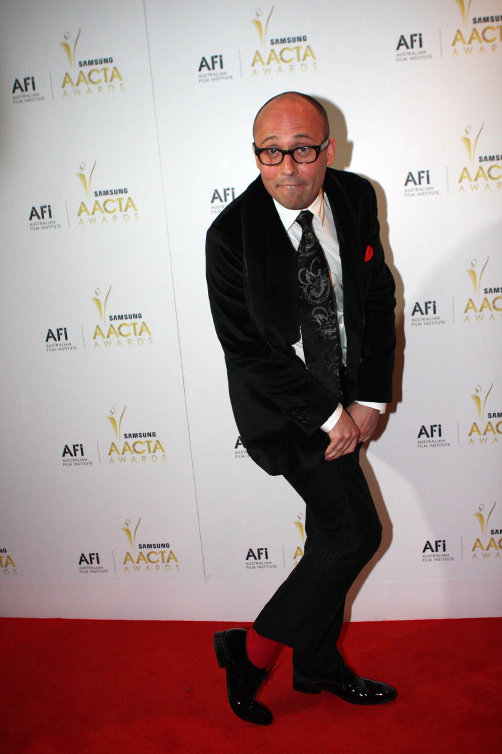 Adam Elliot, 2012, AACTA Awards Results From Sydney, Australia.